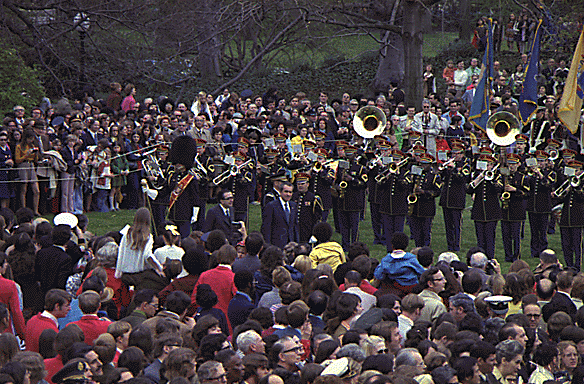 Arrival ceremony for Giulio Andreotti, President of the Council of Ministers of the Italian Republic, 04/17/1973 - with Richard Nixon, US president